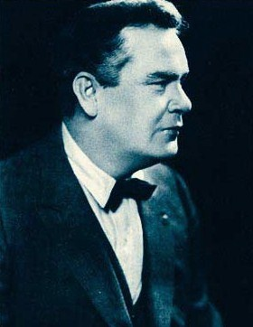 Publicity photo of George Siegmann from Stars of the Photoplay